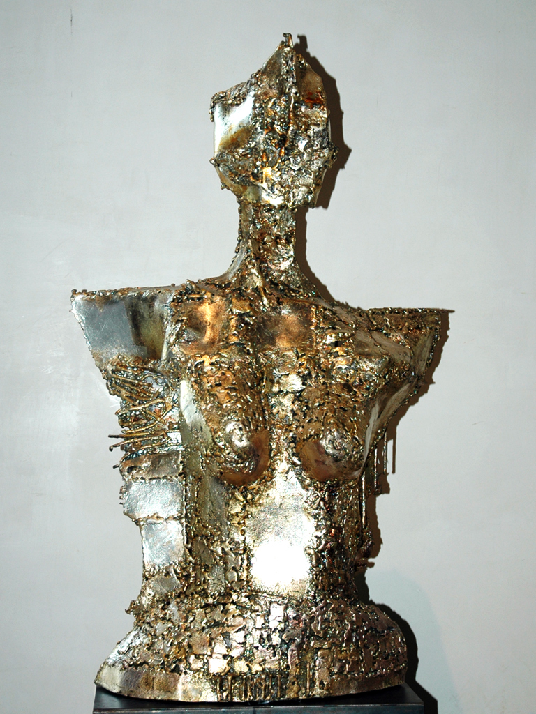 Sculpture by Jan Koblasa, Messenger Angel, welded metal (1986)